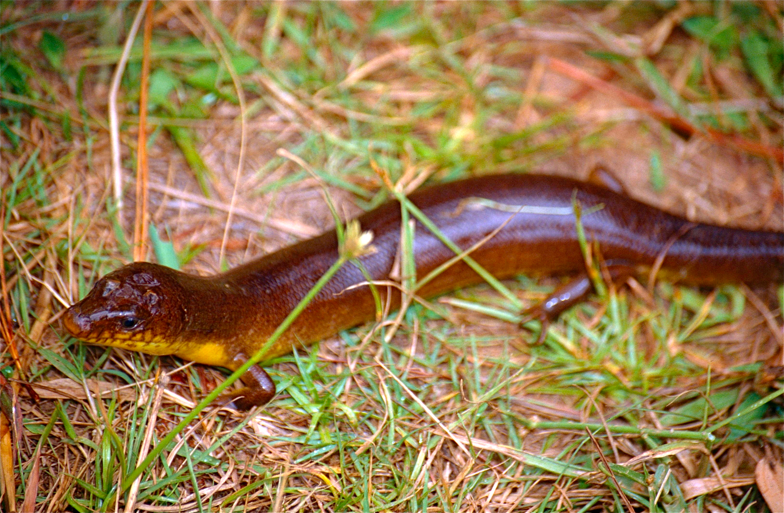 Analamazaotra Reserve, Perinet, MADAGASCAR Scanned Slide from 1998